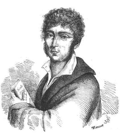 Ignazio Edoardo Calvo, poet in Piedmontese language